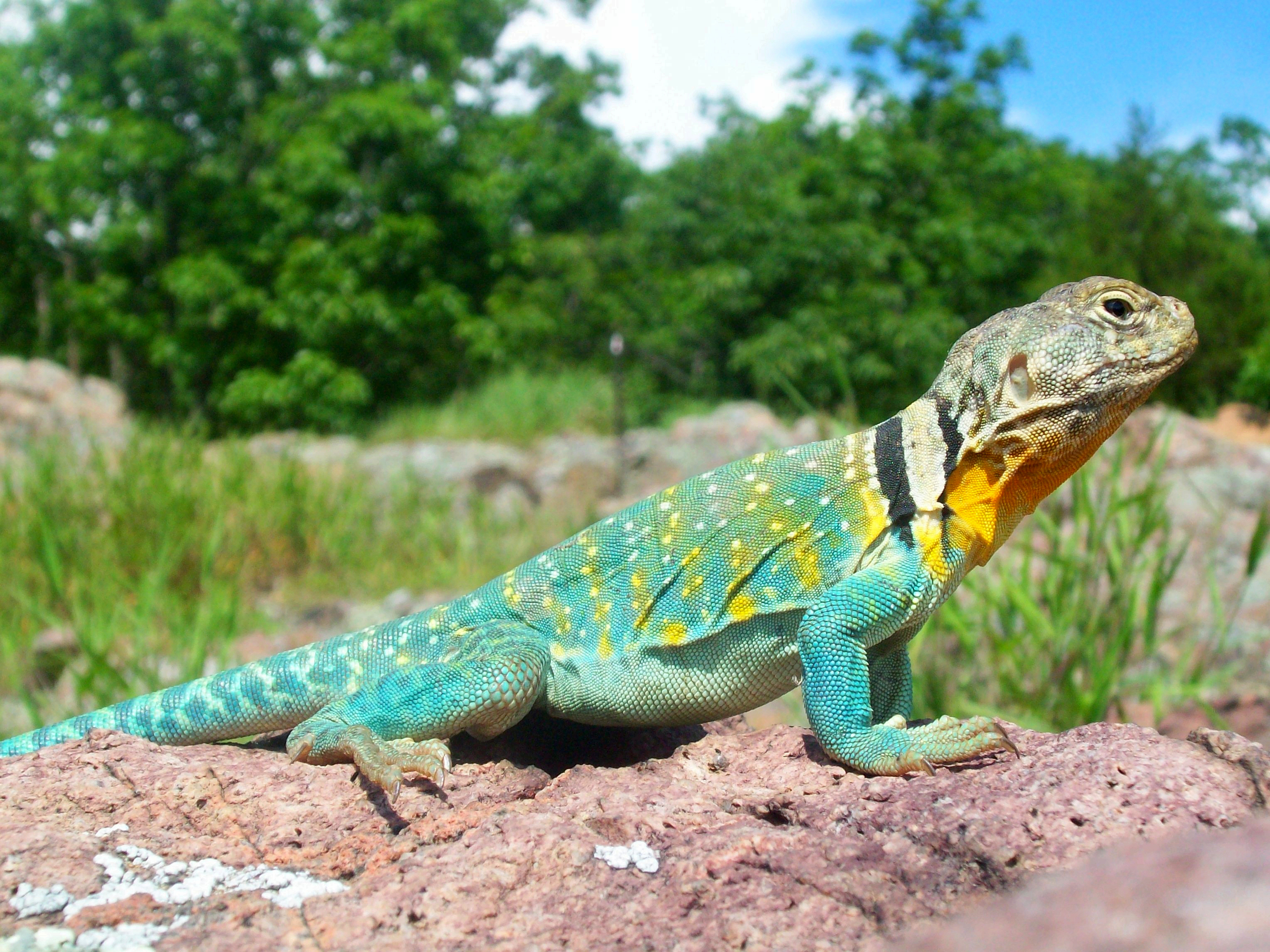 A common collared lizard at Taum Sauk Mountain State Park.